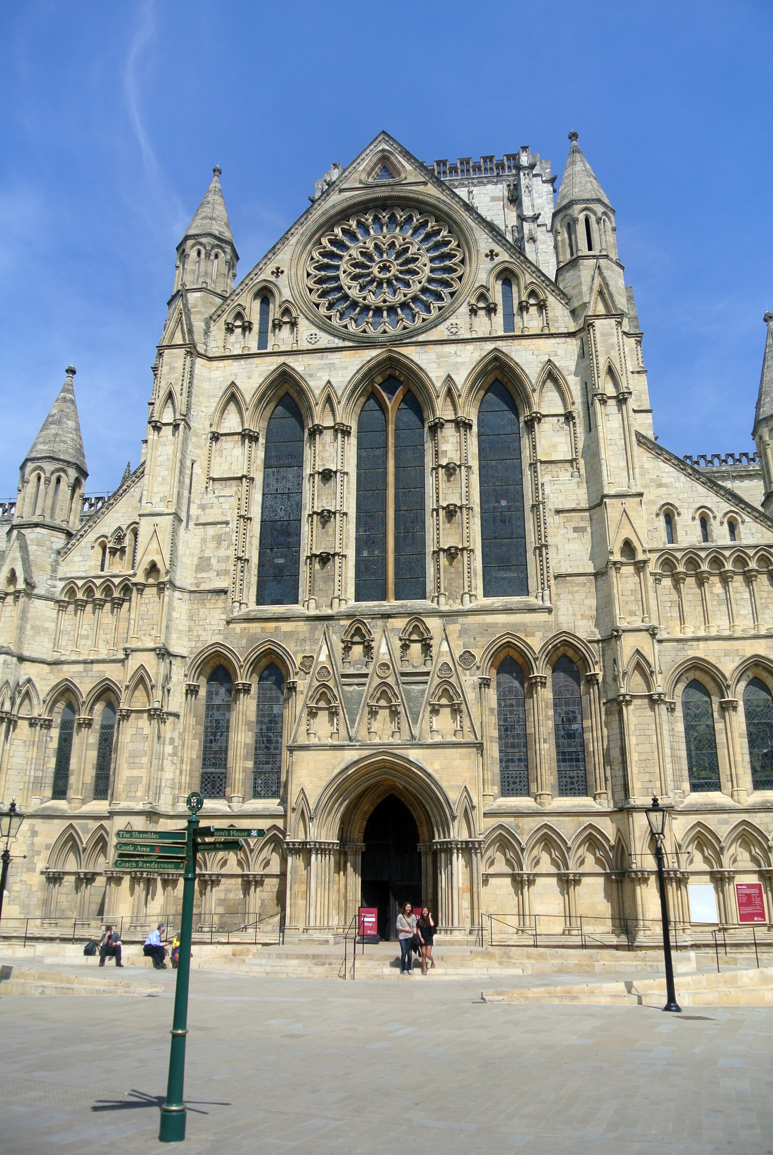 Southwestern portion of York Minster.